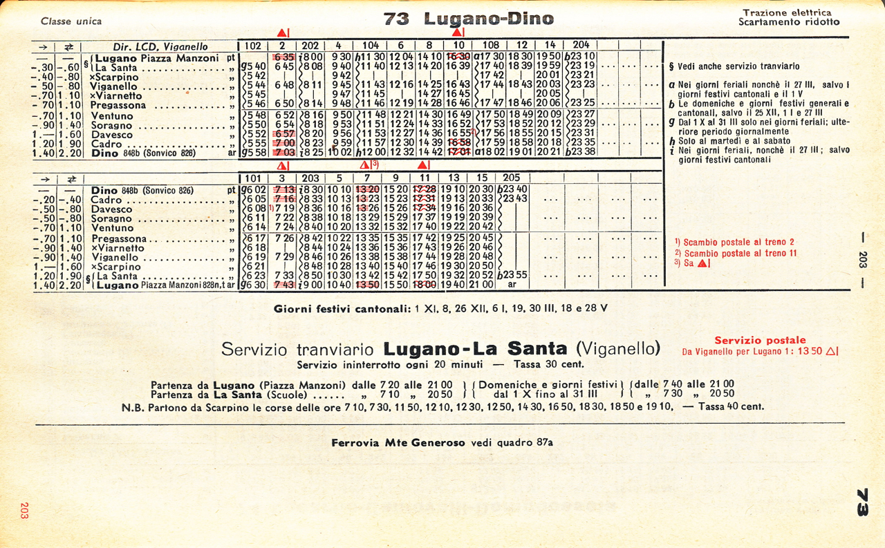 Timetable (mail edition) of the Lugano-Dino railway, winter 1963/1964.